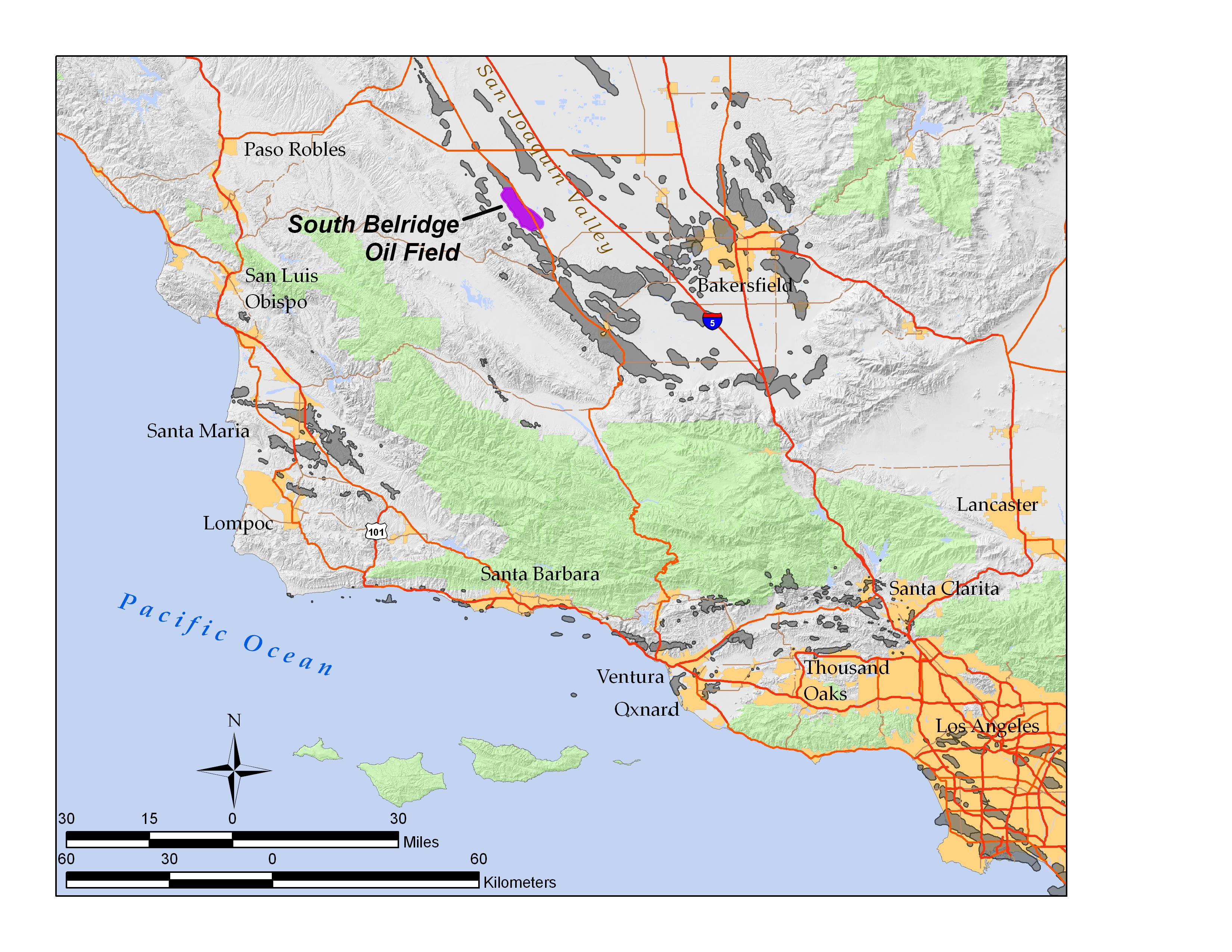 Location of South Belridge Oil Field in Kern County, California. Map made by User:Antandrus in ArcGIS 9.2. All data shown on this map is in the public domain. Sources include USGS National Elevation Dataset; highways and urban areas from the Census 2000 TIGER files; federal lands from US Dept of the Interior; oil field boundaries from California Dept of Conservation, Division of Oil, Gas, and Geothermal Resources (DOGGR).